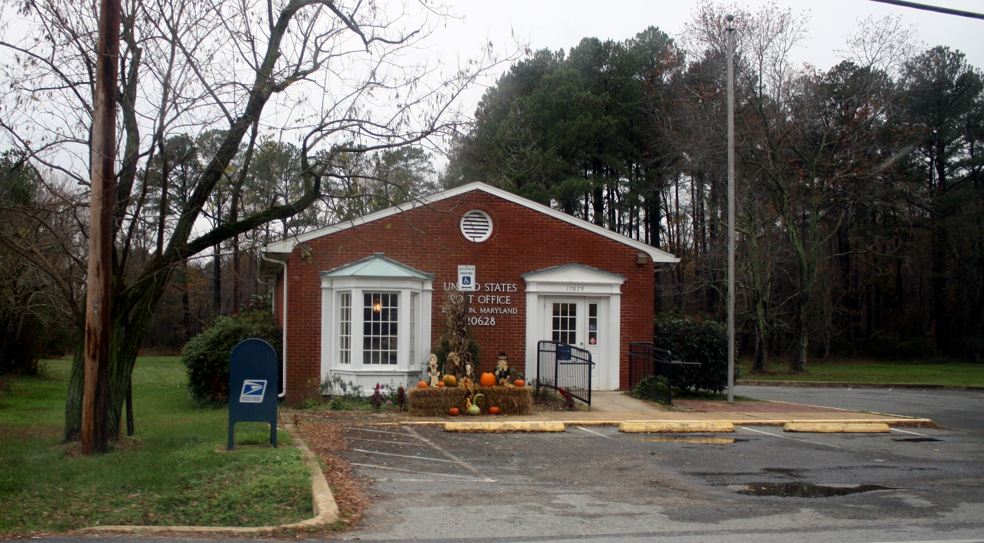 Dameron (MD) Post Office at 17679 Three Notch Road (Route 235) and St. Jeromes Neck Road in Dameron, Maryland on Thursday afternoon, 26 November 2009. Photo by Elvert Xavier Barnes Photography